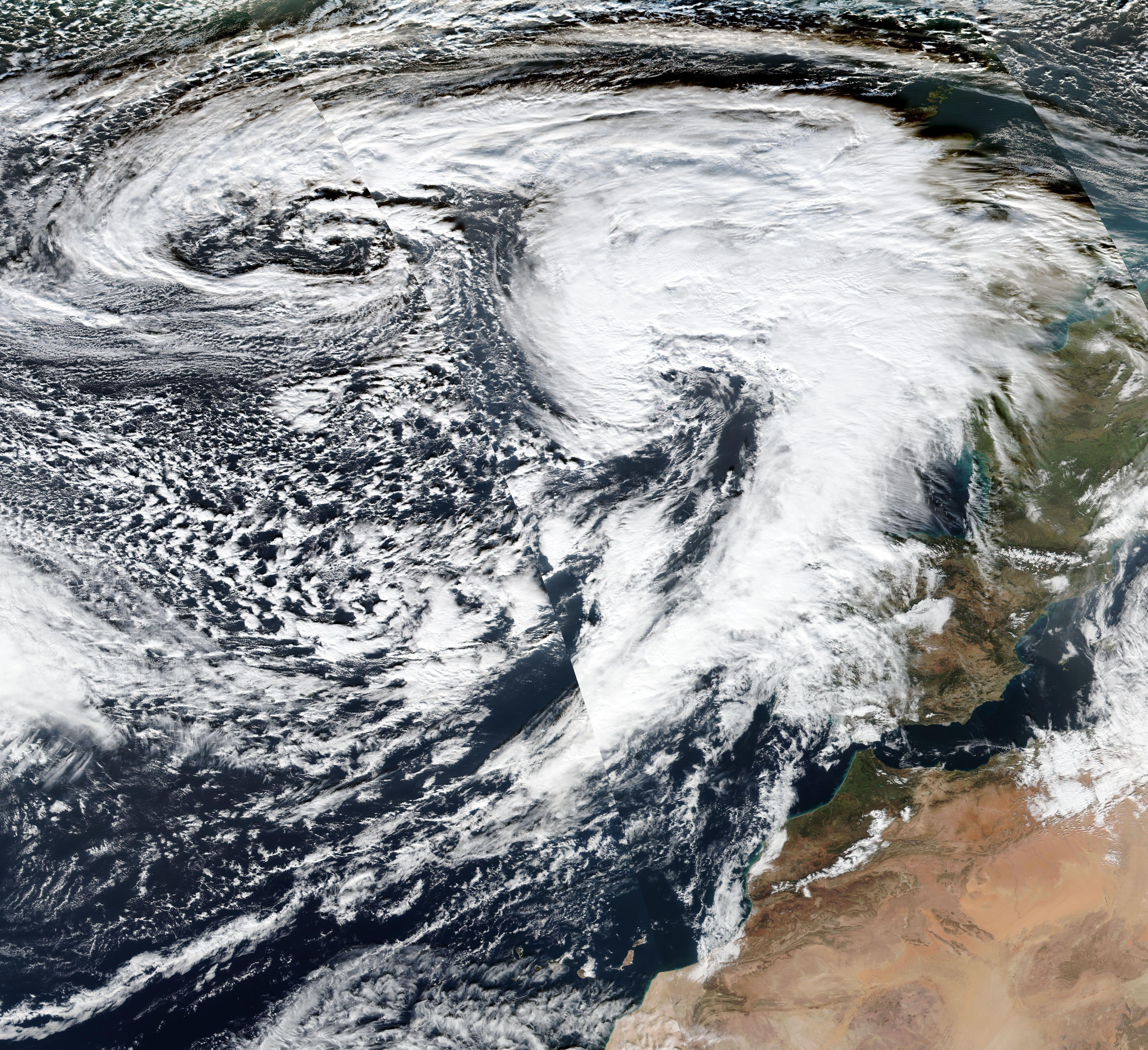 Storm Elsa, of the 2019-20 European windstorm season, near the British Isles on 18 December 2019.